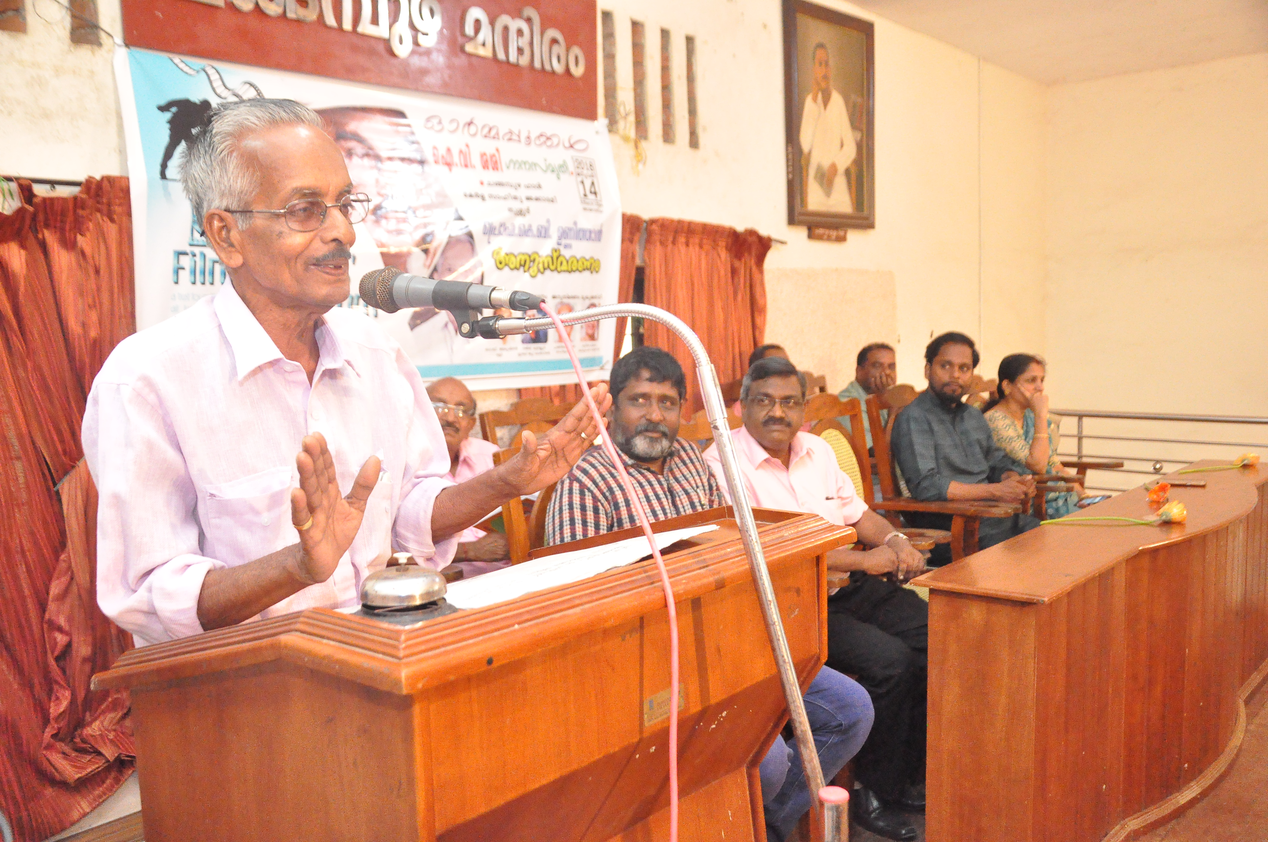 Pangil Bhaskaran speaks in 'Oormmappookkal', a function of the musical tribute for I.V. Sasi and the remembrance of Prof. K.B. Unnithan organized by D.F.M.F Trust at Vyloppilly hall of Kerala Sahitya Akademi on 14-January-2018